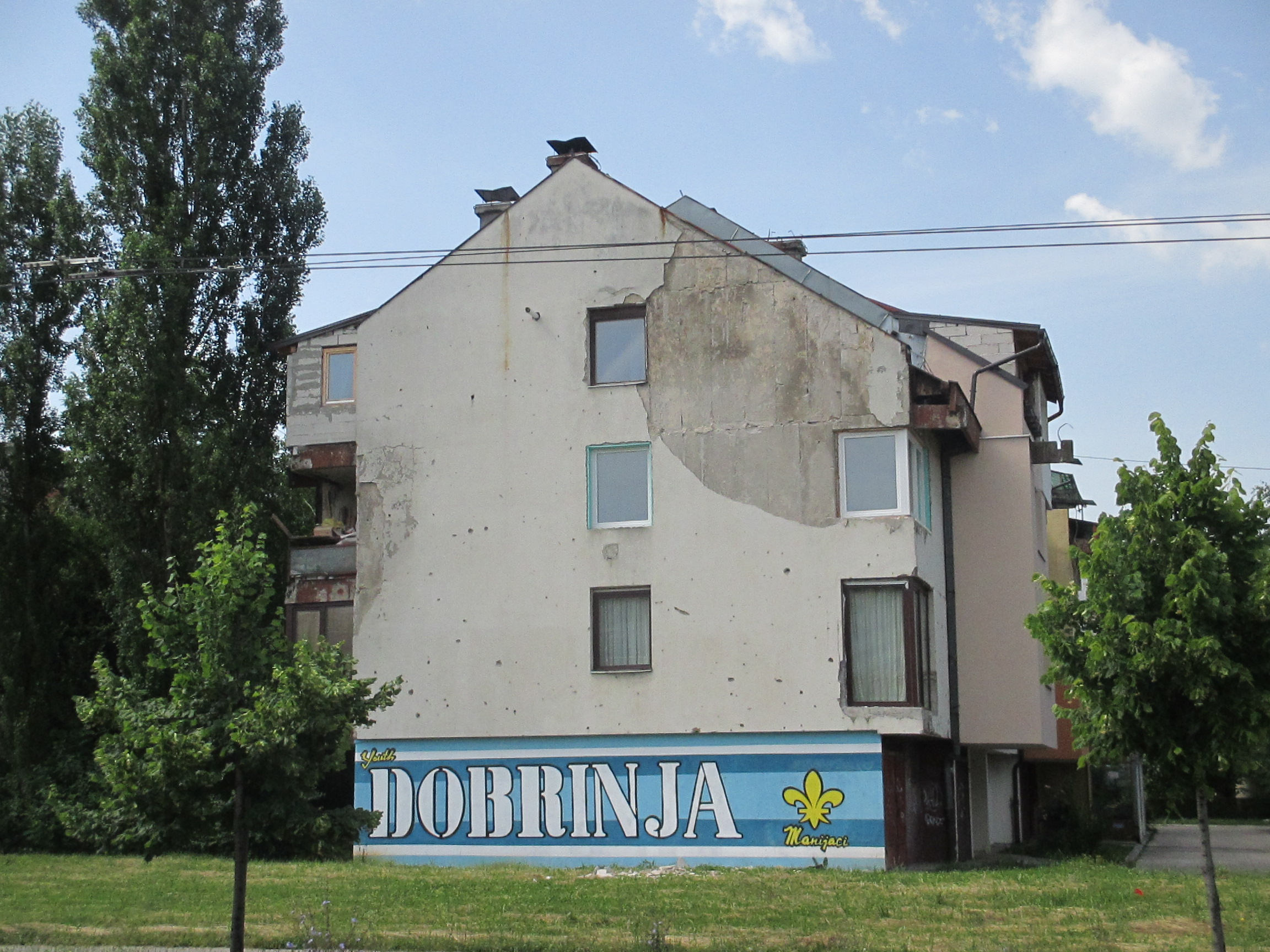 Mural painting in Dobrinja, Sarajevo (Bulevar Mimara Sinana), by the Manijaci football fan group. June 2014